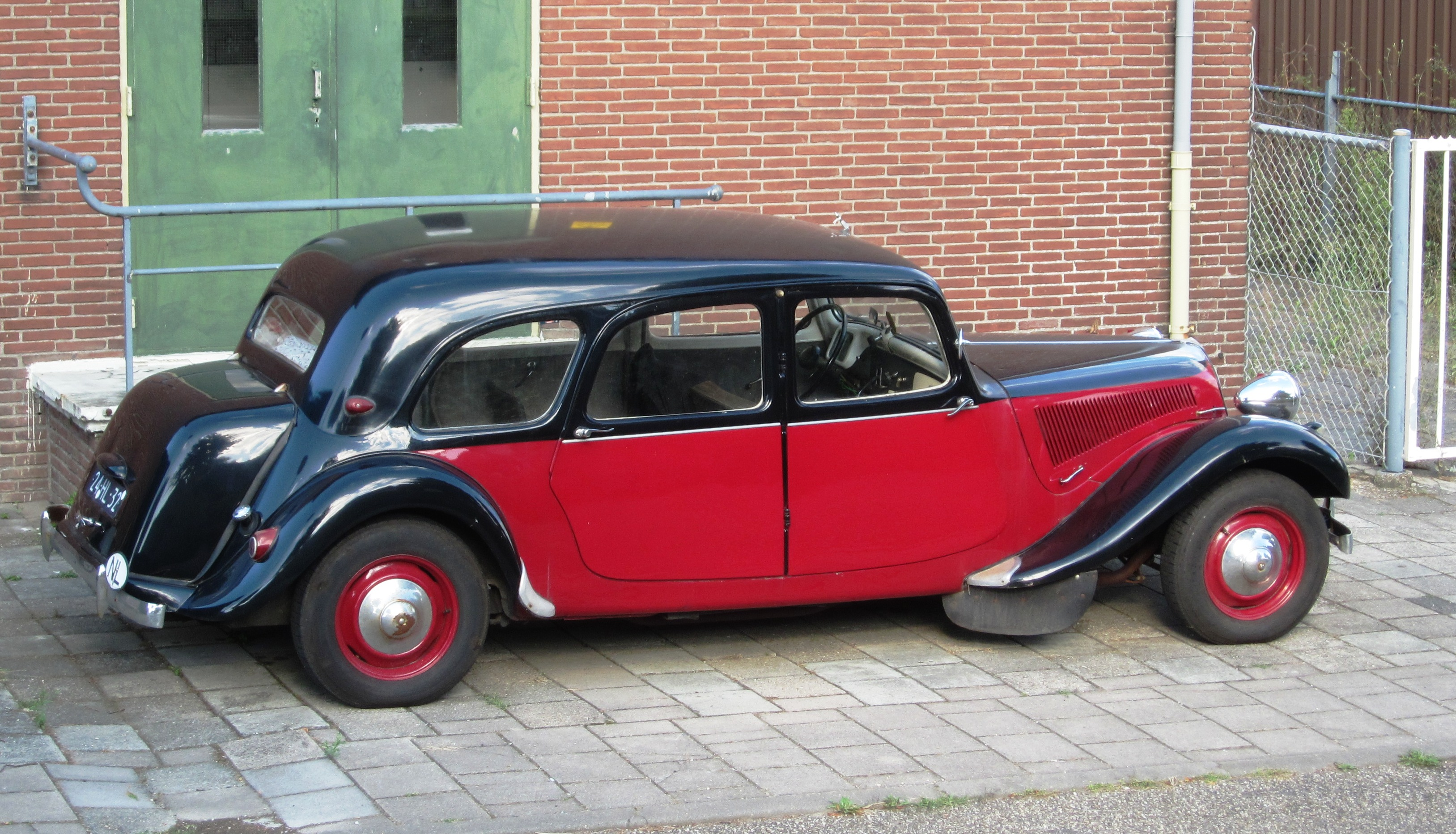 Citroën Traction 11 Familiale